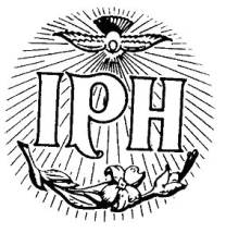 Emblem of Missionaries of Saint Joseph of Mexico, from a book pub. 1890